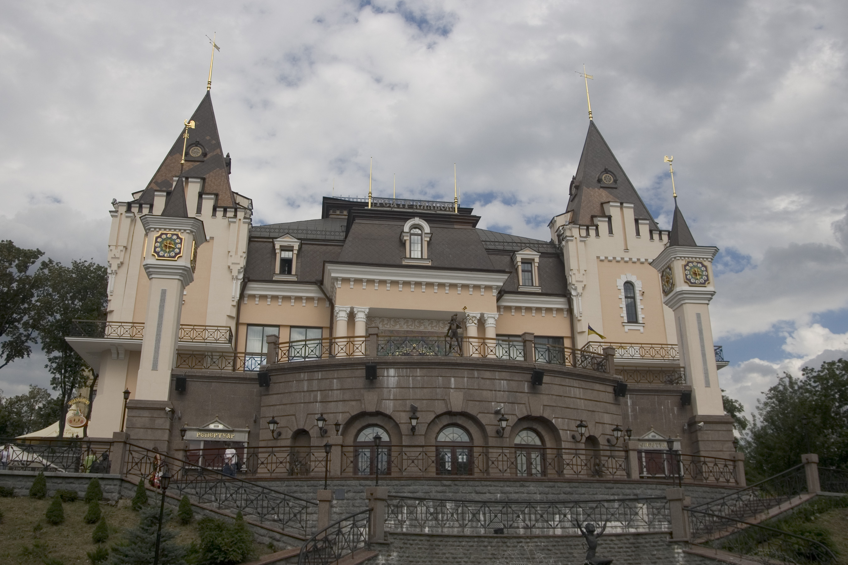 Kiev Academic Puppet Theatre